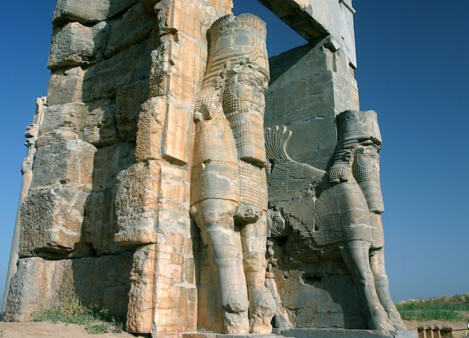 Gate of all nations in Persepolis.